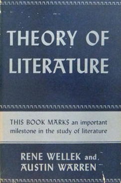 Dust jacket cover for the first edition of Theory of Literature